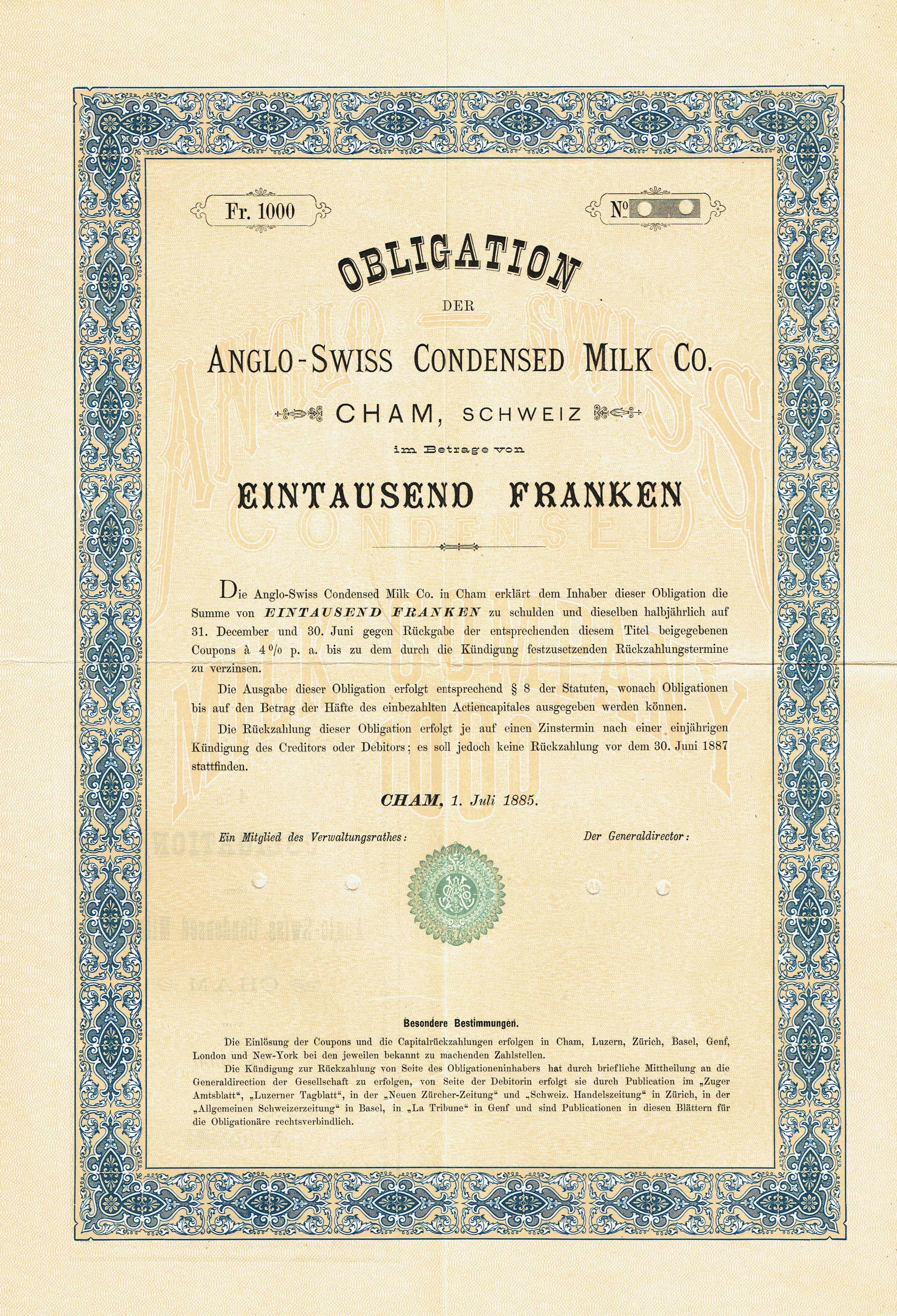 Bond of the Anglo-Swiss Condensed Milk Co., issued 1. July 1885